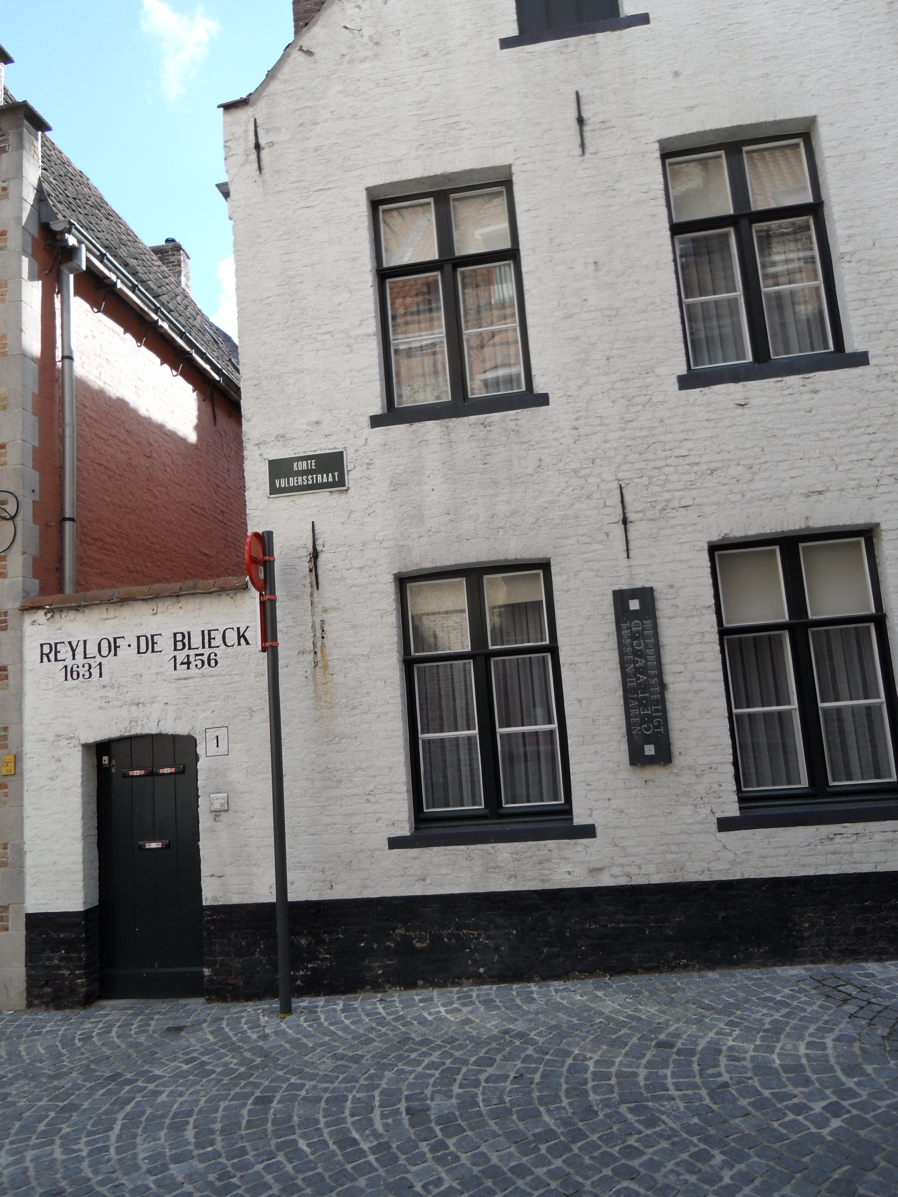 Kortye Vuldersstraat in Bruges